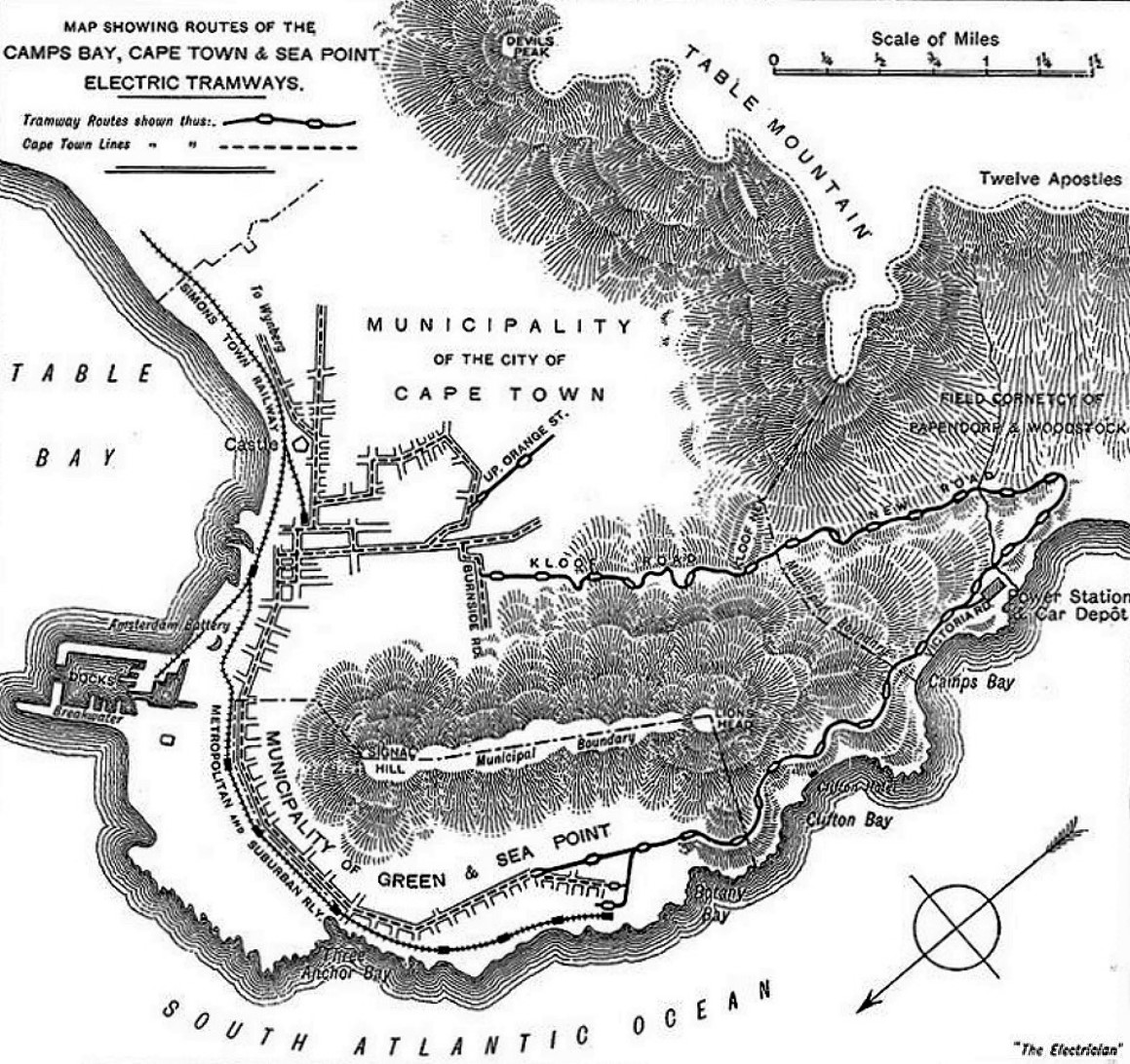 A map of the tramways in and around Cape Town, South Africa, being Cape Town's urban tramways and the interurban tramway from Cape Town to Camps Bay and Sea Point.